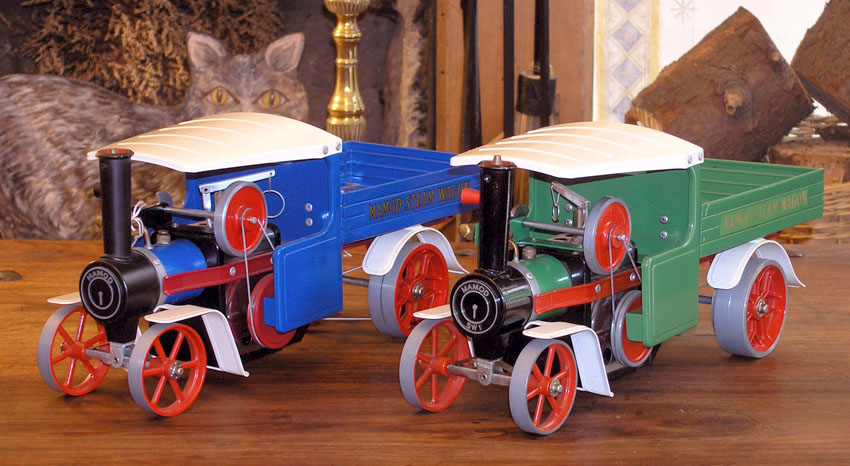 Two Mamod Steam wagon engine, a blue wagon from 1988 and a green wagon from 1973, photographed on a wooden table.